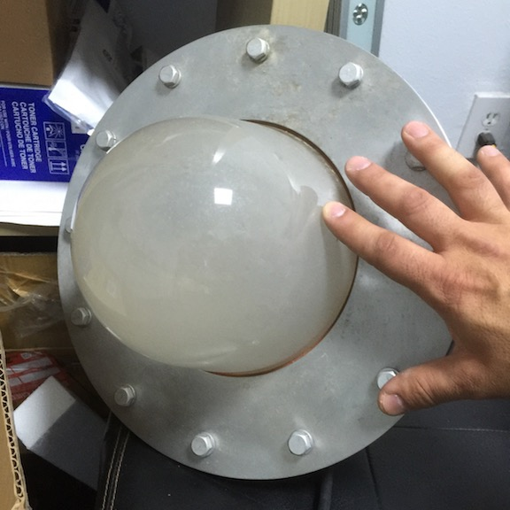 Front view of a single RGB LED lighting fixture from the 259 installed on the Reunion Tower ball in downtown Dallas, TX. Courtesy of Wiedamark.